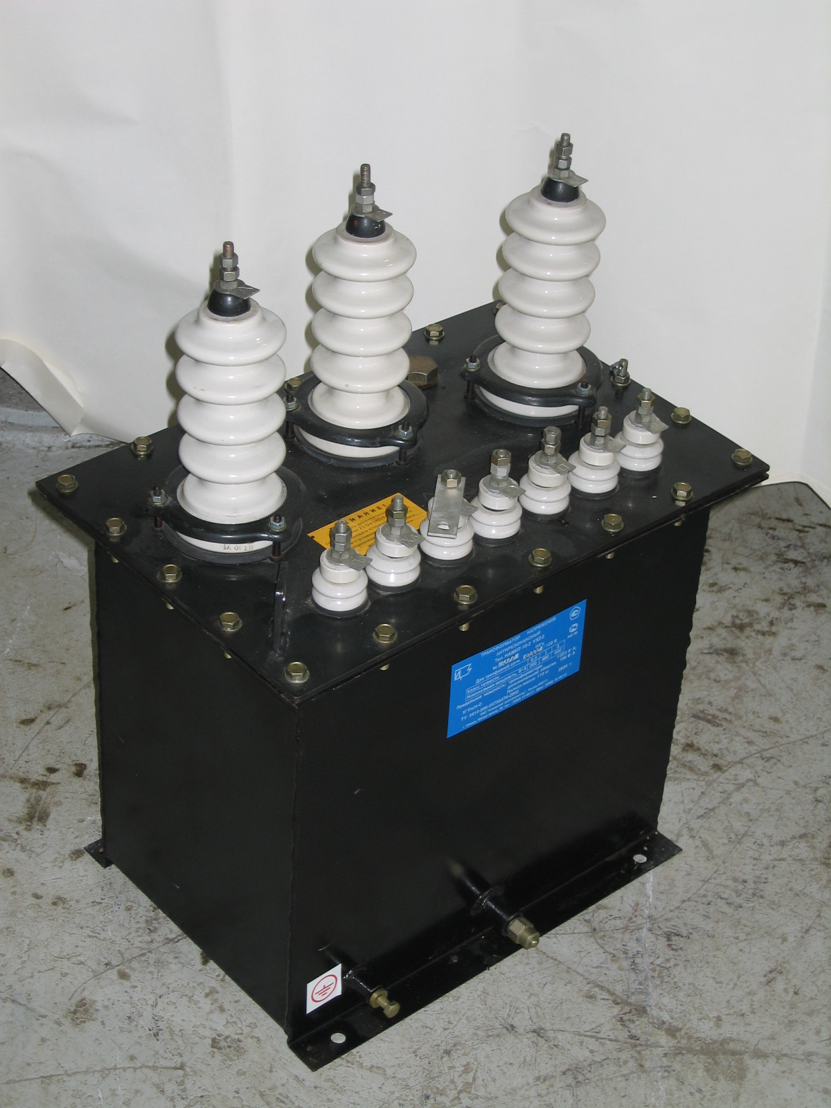 High voltage ferroresonant transformer